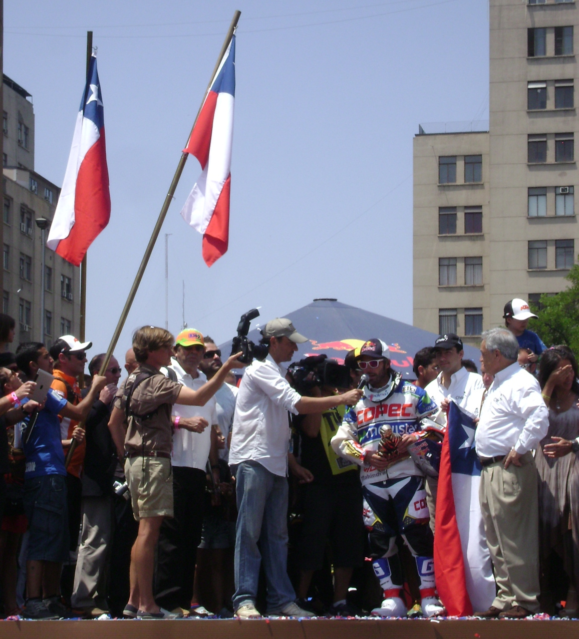 Dakar 2013 Finish and Award Ceremony, Santiago, Chile. Francisco López holding the third place award, and talking to the press, next to Sebastián Piñera, president of Chile.